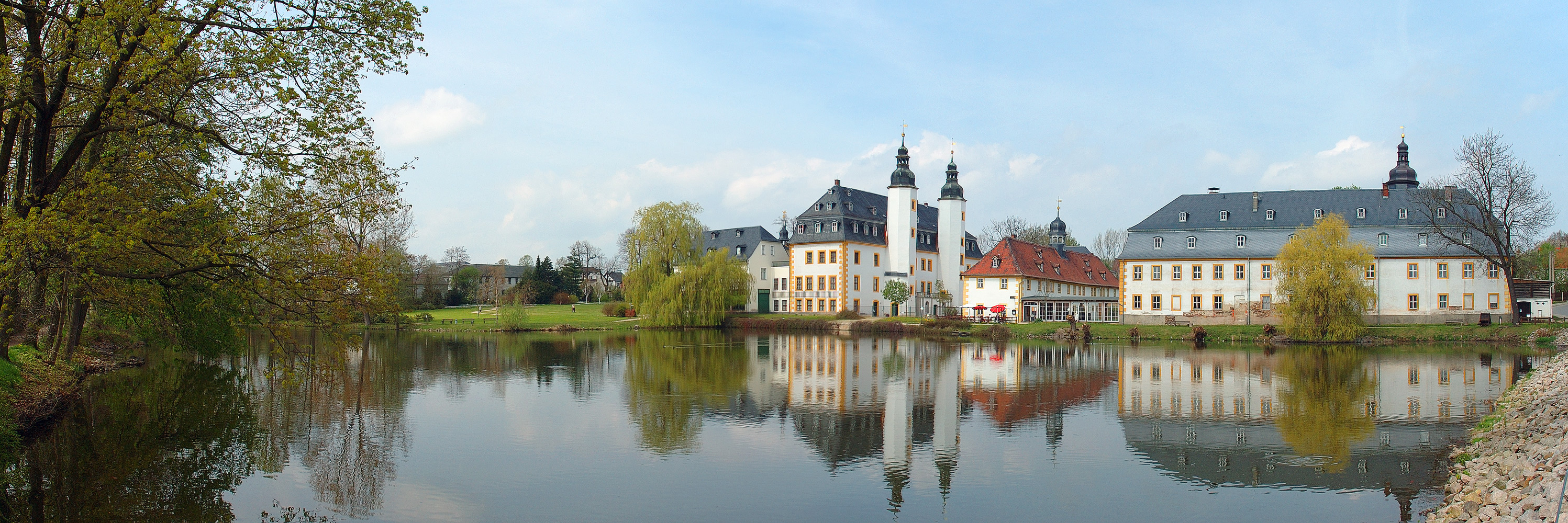 This image shows a panorama photo of the castle Blankenhain and its pond (near Crimmitschau, Germany). It has been stitched together using two single images.